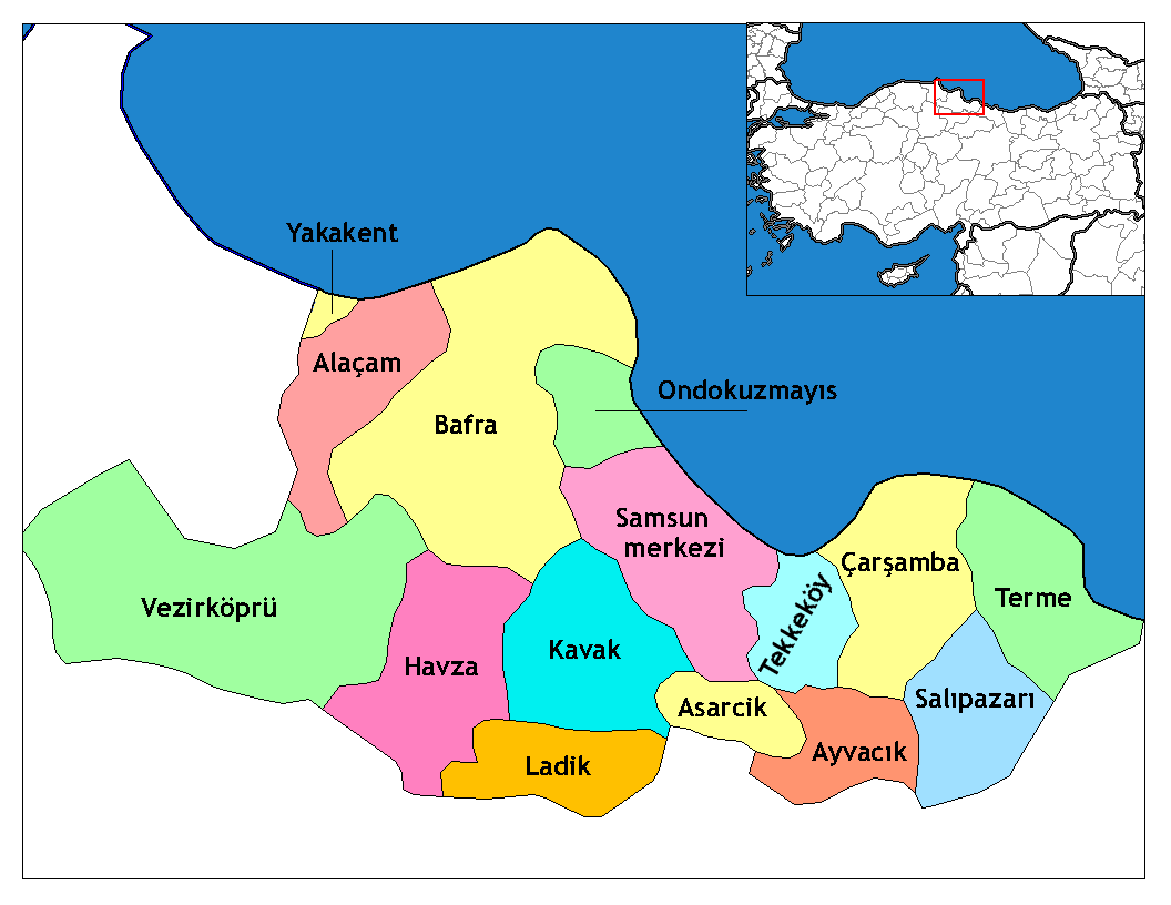 Map of the districts of Samsun province in Turkey. (before 2008)